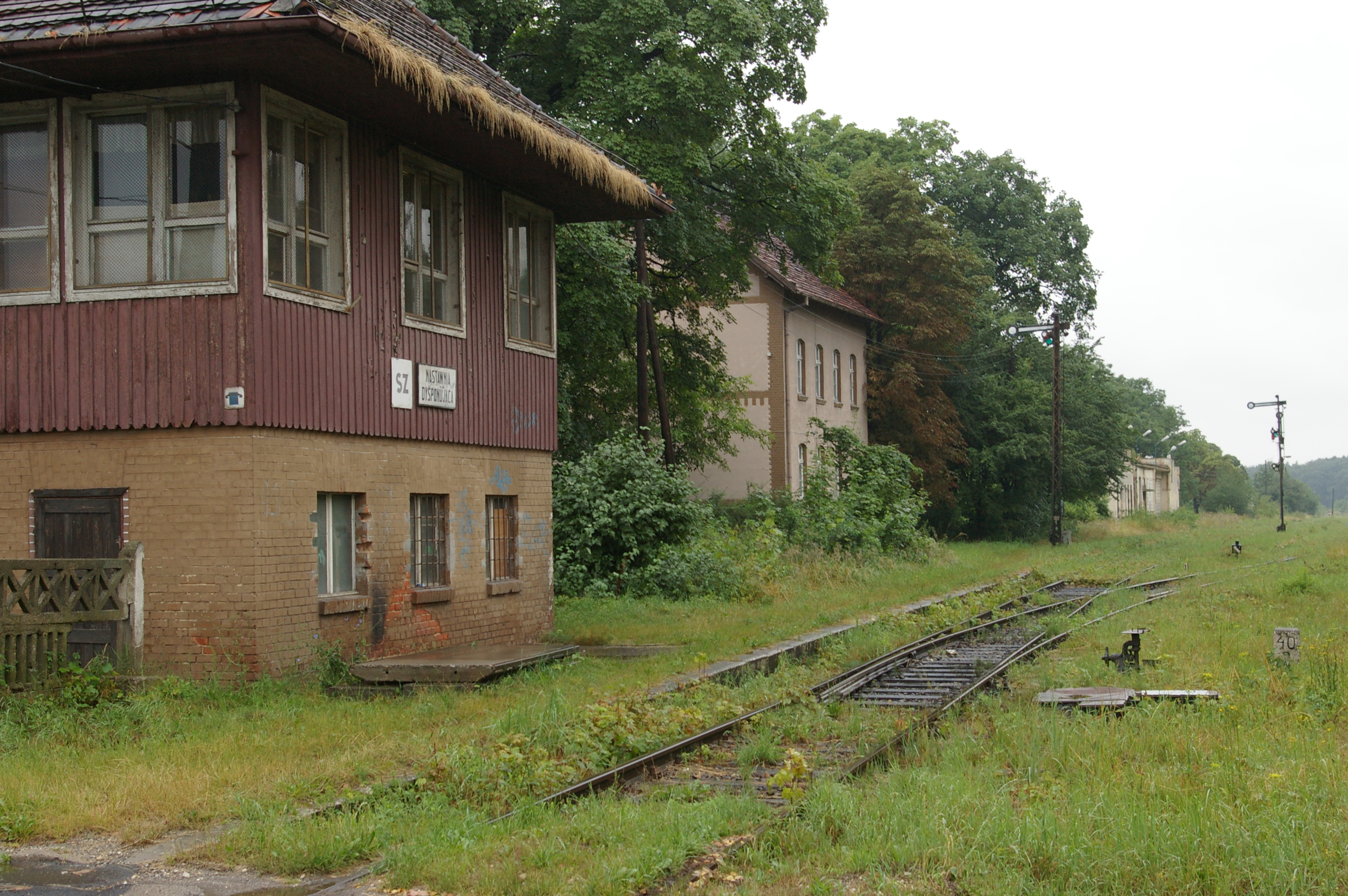 Railway Station in Sobótka Zachodnia